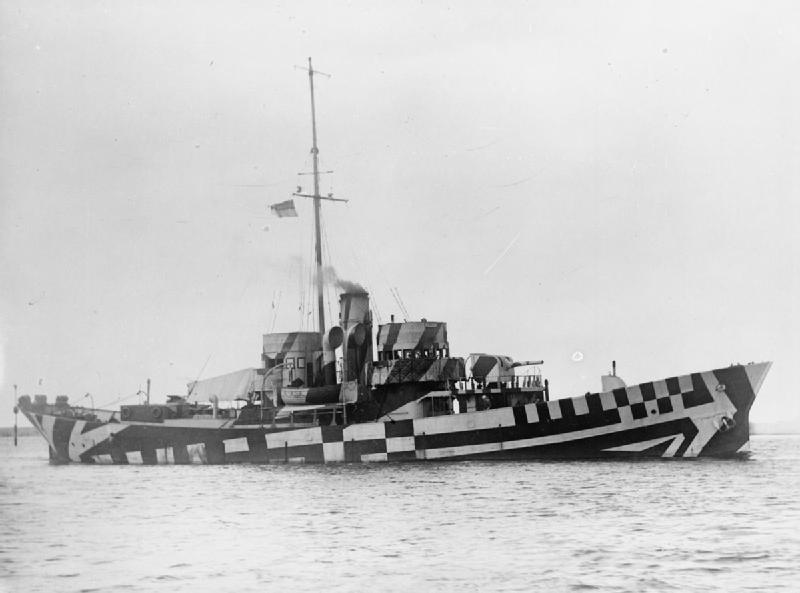 Photograph of British Kil class patrol gunboat HMS Killour painted in dazzle camouflage.